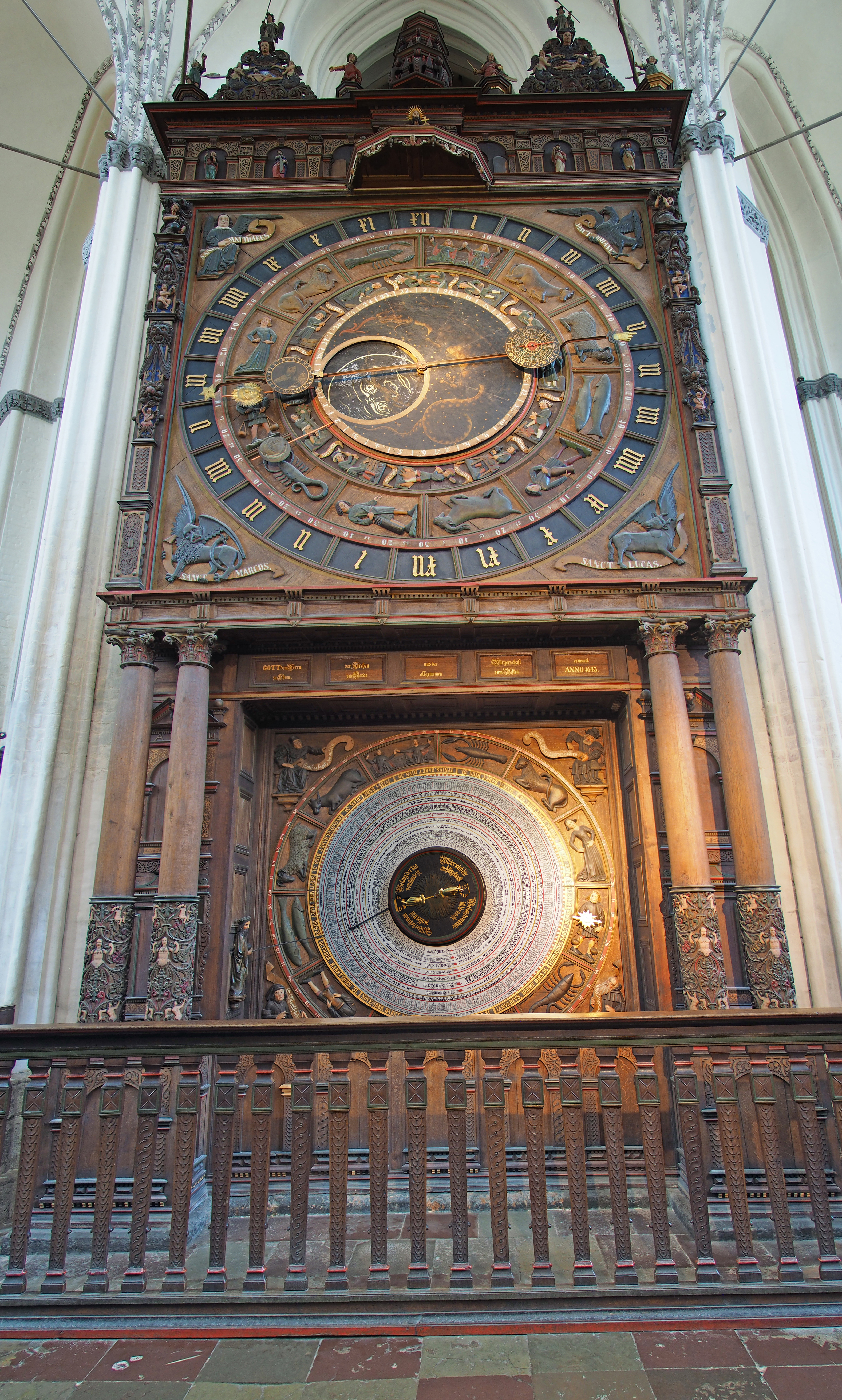 Astronomical clock of St. Mary Church in Rostock, Germany (2018–2150)